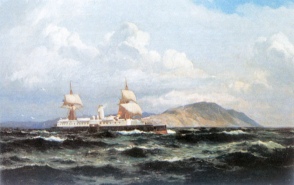 The Argentine cruiser Patagonia, in a painting by marine painter Eduardo de Martino.